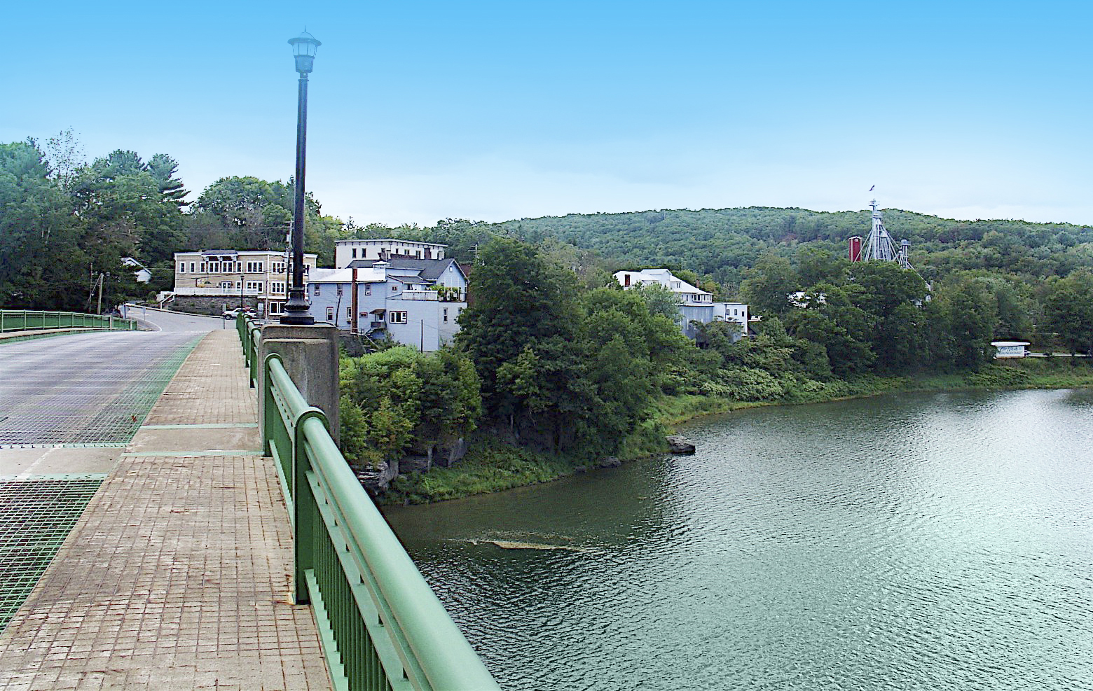 Ny- Pa bridge